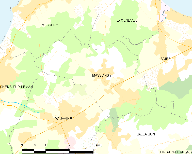 Map of French municipality Massongy